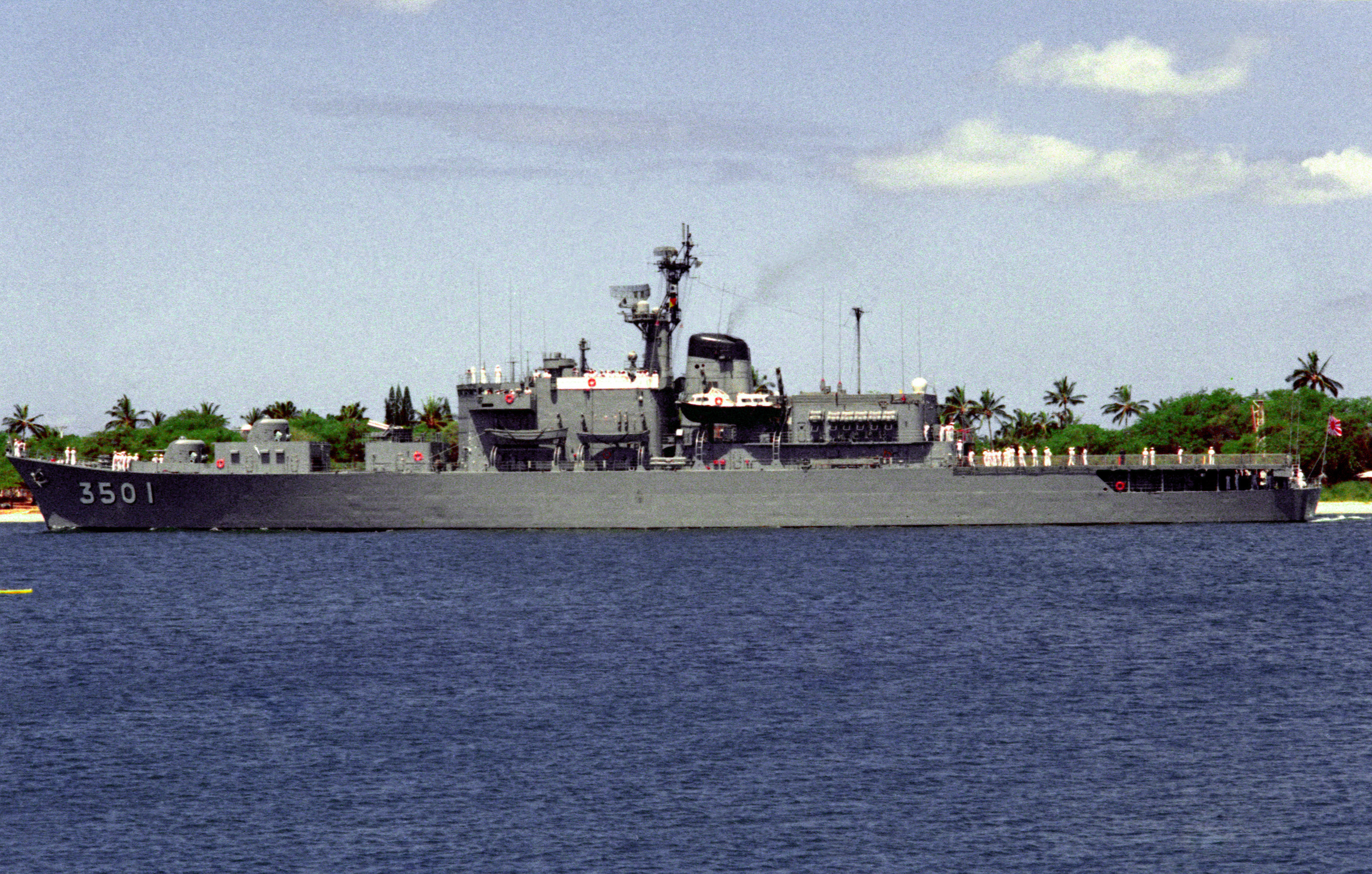 A port beam view of the Japanese Maritime Self-Defense Force training ship KATORI (TV-3501) underway in Pearl Harbor.